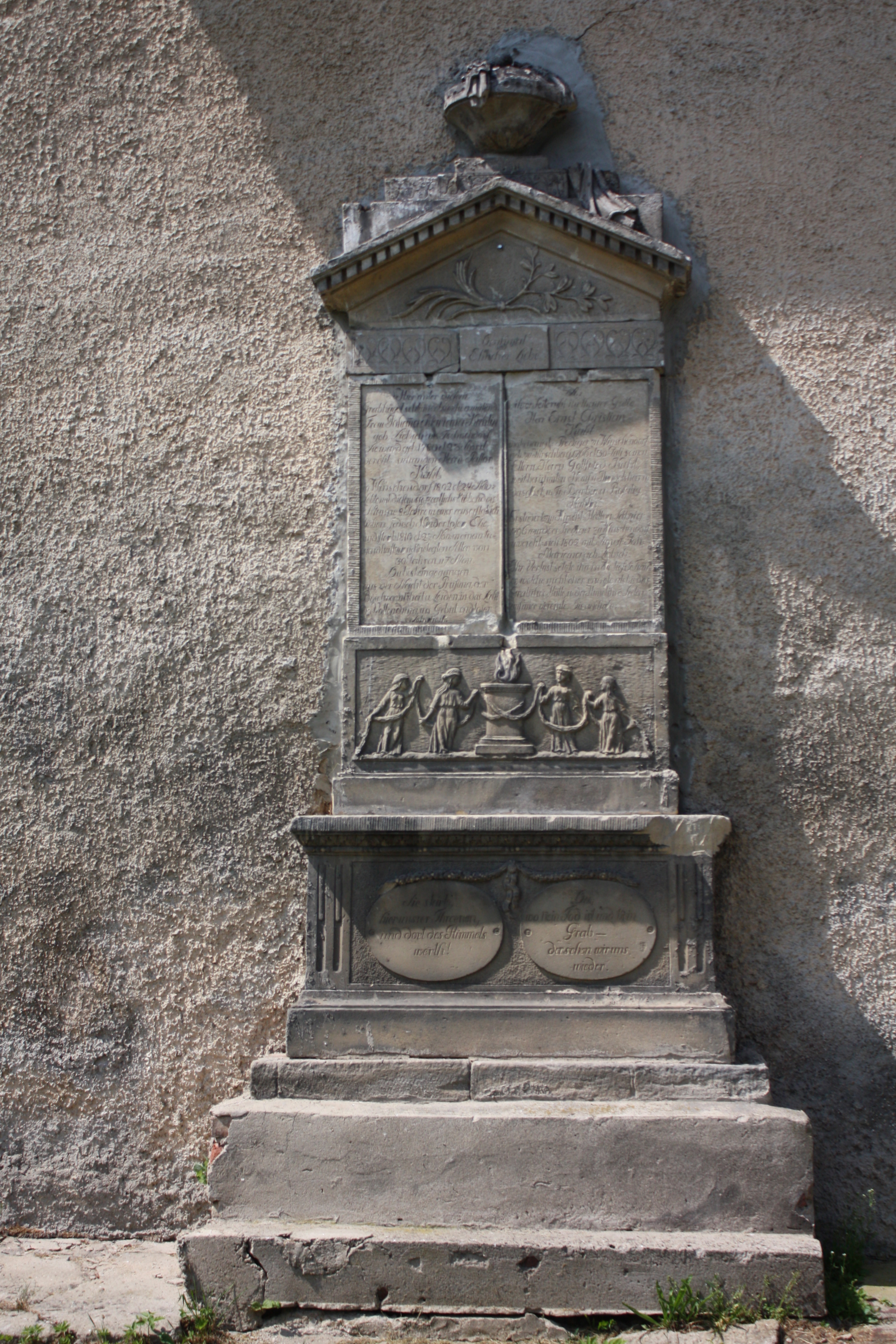 This photo of Lower Silesian Voivodeship was taken during Wikiexpedition 2013 set up by Wikimedia Polska Association. You can see all photographs in category Wikiekspedycja 2013. English | Polski | +/−